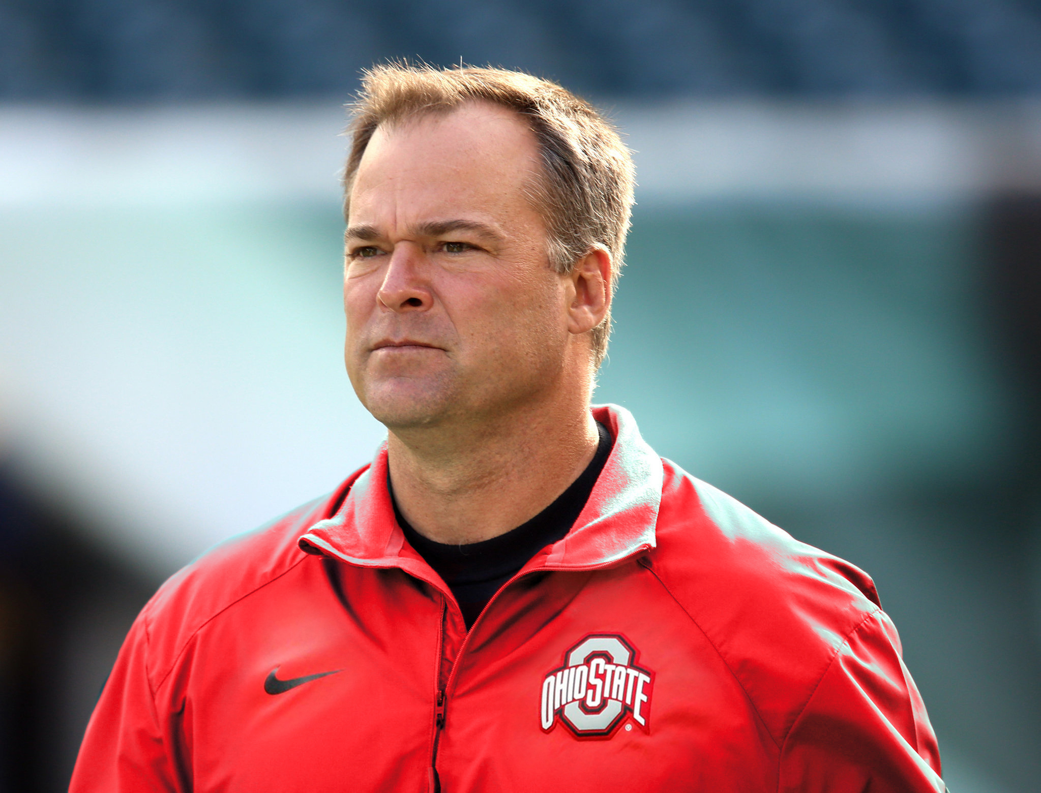 Billy Davis on Ohio State's campus, 2016